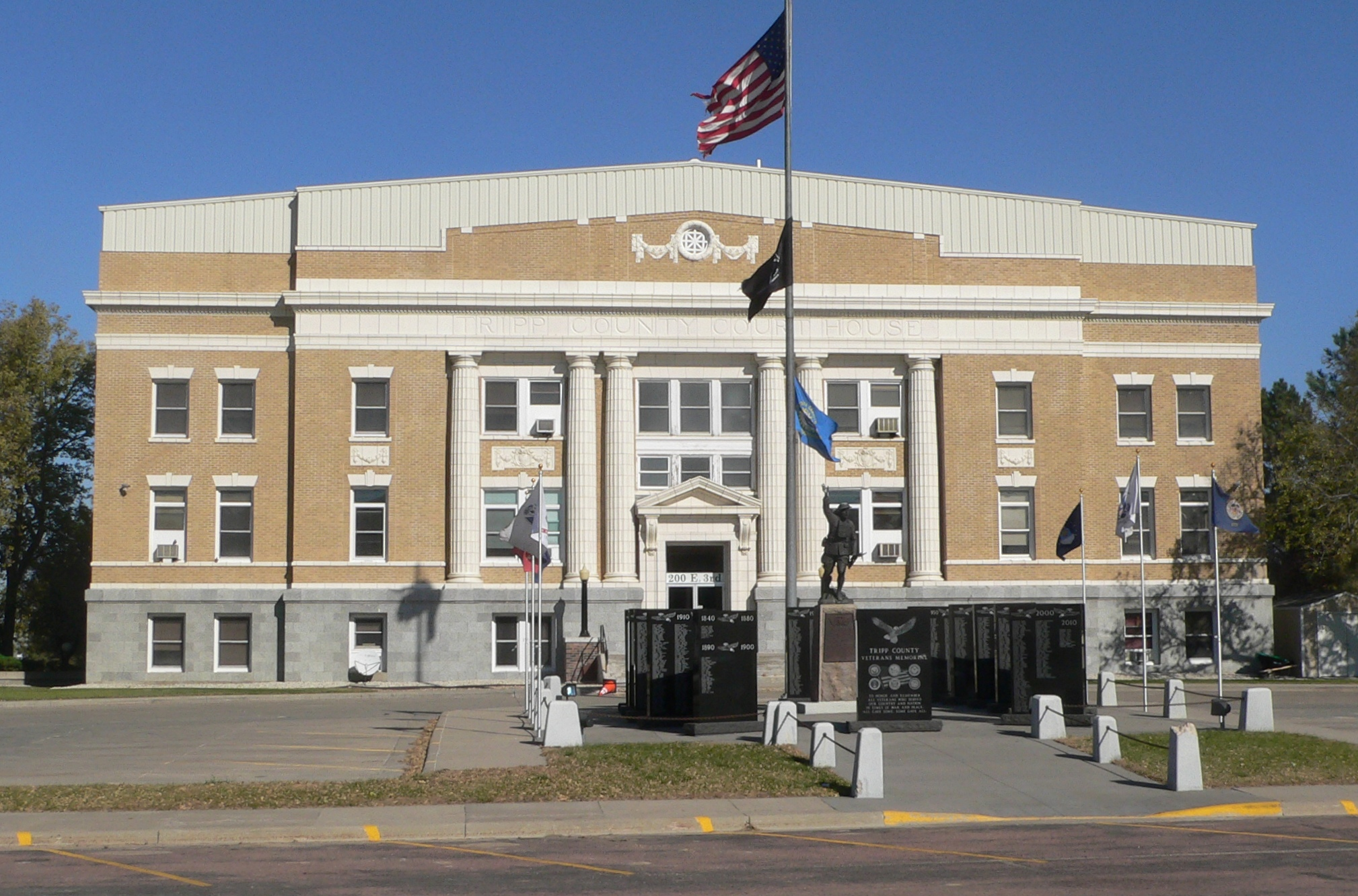 Tripp County courthouse in Winner, South Dakota; seen from the south.